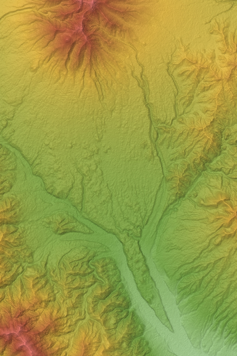 Nirasaki Debris Avalanche Deposits in Yamanashi Prefecture, Honshu, Japan.